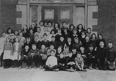 A graduating class from Niagara Public School. Several graduation photographs hang in the school house today.